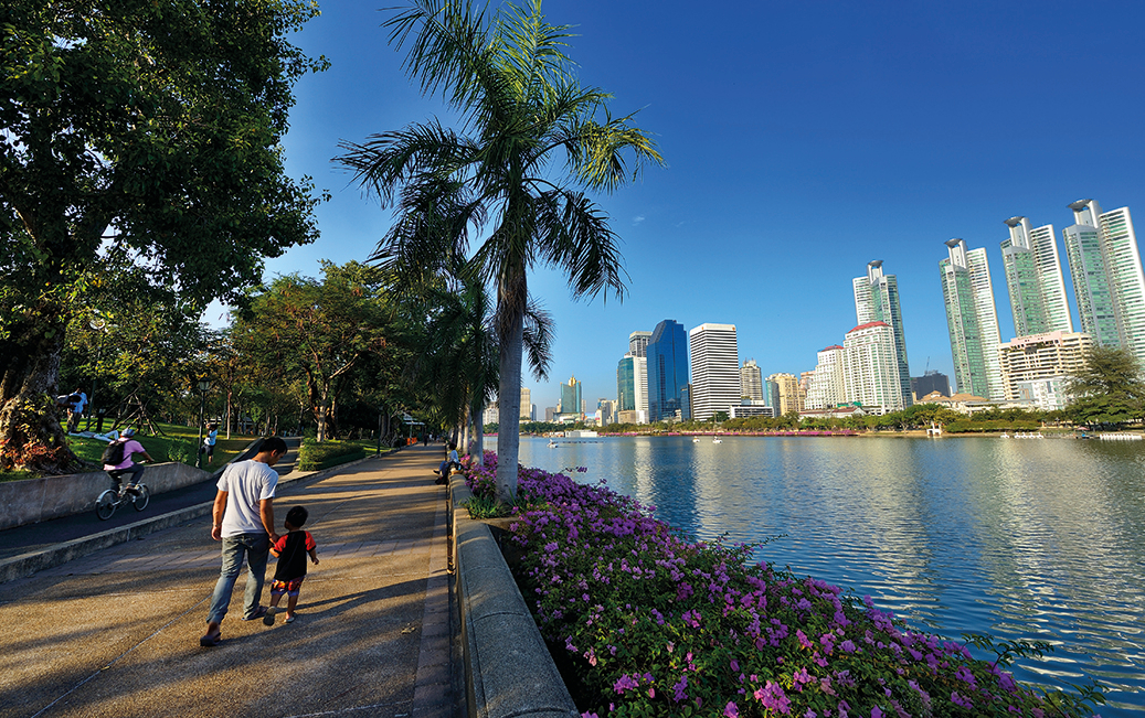 Covering an area of 430 rai, Benjakiti Park lies at the heart of the city on Ratchadapisek road, Khlong Toei district. This area was once an artificial lake, a result from excavation for factory construction, belonging toTheThailand TobaccoMonopoly. After the factory was relocated, this place was developed into a green area for Bangkokians in order to celebrate HRH Queen Sirikit’s 60th birthday anniversary in 1992. Queen Sirikit named this park “Benjakiti”, and designed herself a model of a garden as well as flowering and ornamental plants to be grown each month. The official opening ceremony was held on 9th December, 2004, presided over by the queen. The park is divided into 2 parts: the first part comprises Benjakiti field, a large area which connects both a jogging track and a cycling track and features “Pathum Chat”, a blooming golden lotus sculpture on the topmost post.; a field for activities associated with traditions, art and culture, traditional games, and an area of a Buddha statue “Phra Phuttha Wisuthi Mongkol”; the second part features the Bangkok’s first and largest aqua park, covering two third of the part, with a large lake under the concept “Forest Preserving Water” and small forest parks resembling actual ones in each region.